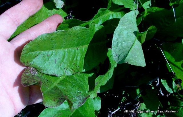 نباتات برّية سورية تؤكل